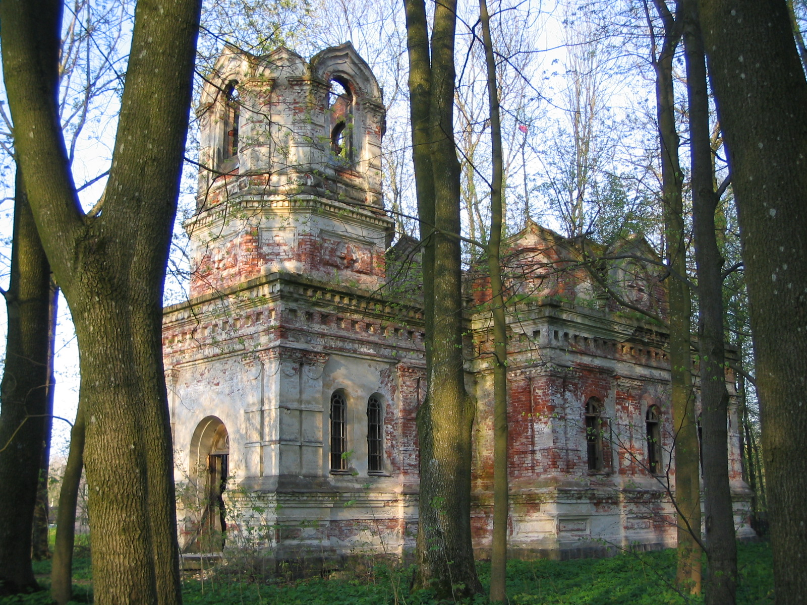 Freda sobor.